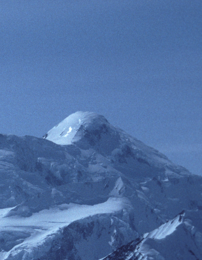 Mt. Kennedy from the air to the north, with the summits of Mts. Hubbard and Alverstone showing.